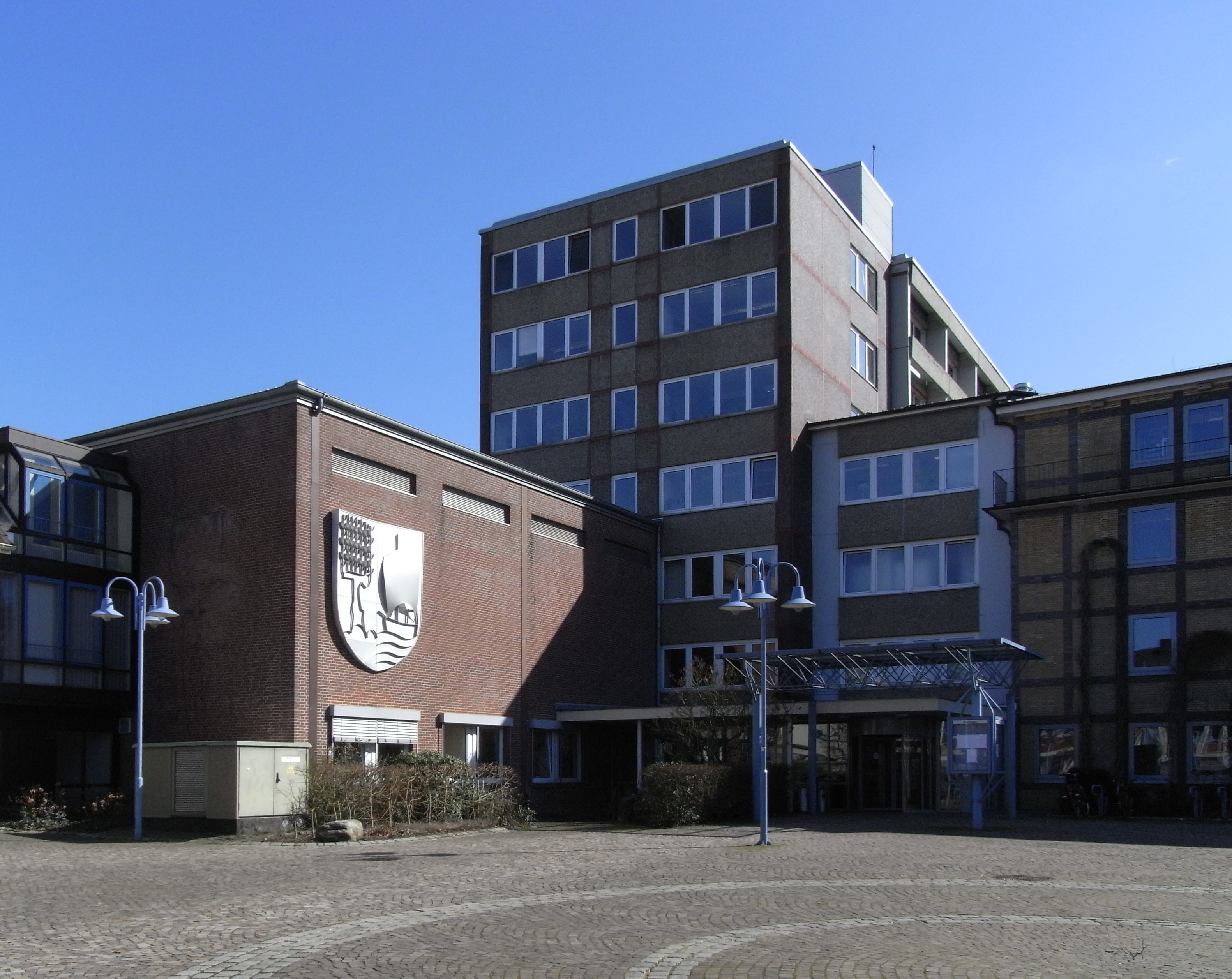 Town hall of Geeshacht, Schleswig-Holstein, Germany.